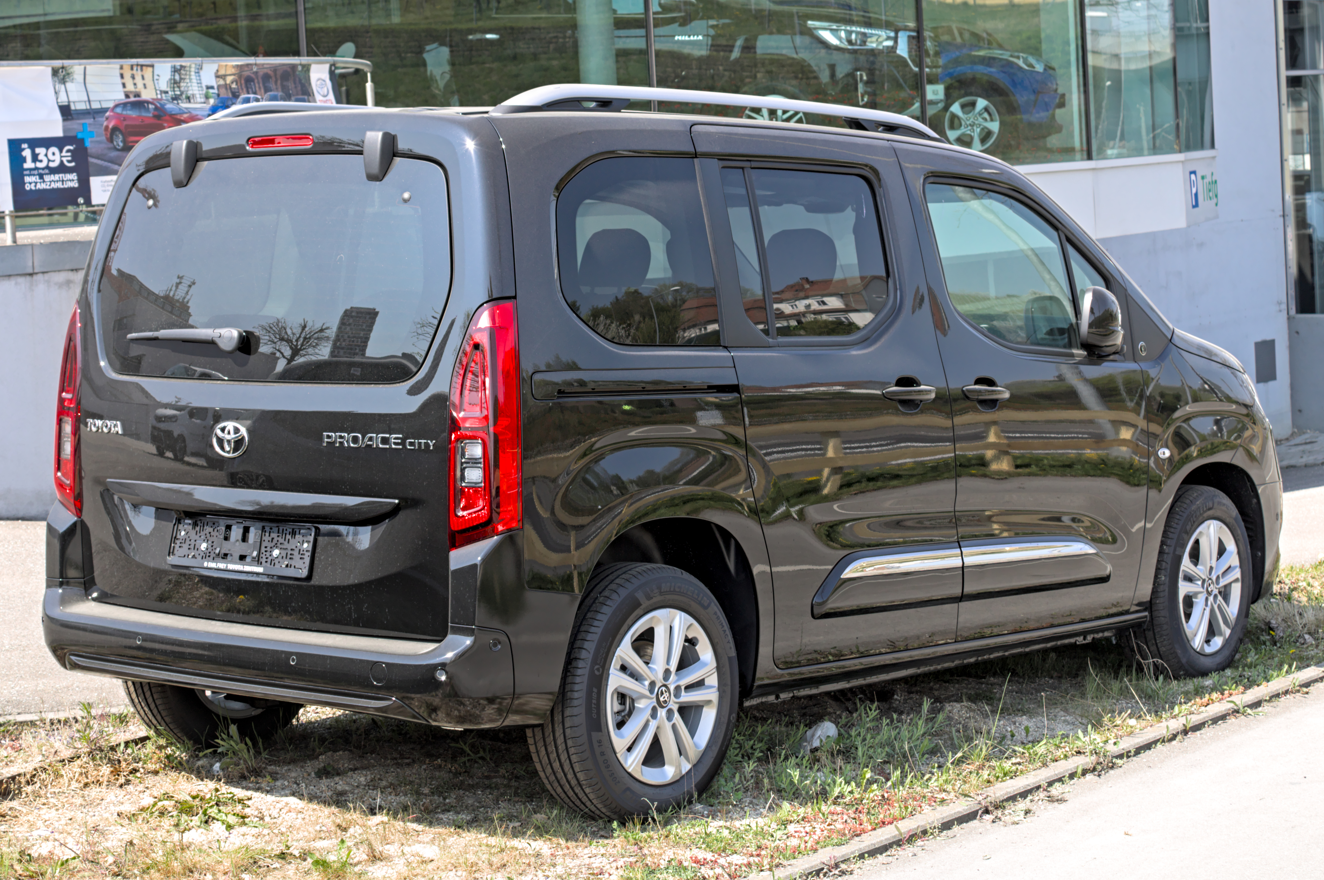 Toyota_ProAce_City in Stuttgart